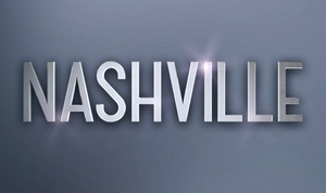 Logo for the US television show Nashville